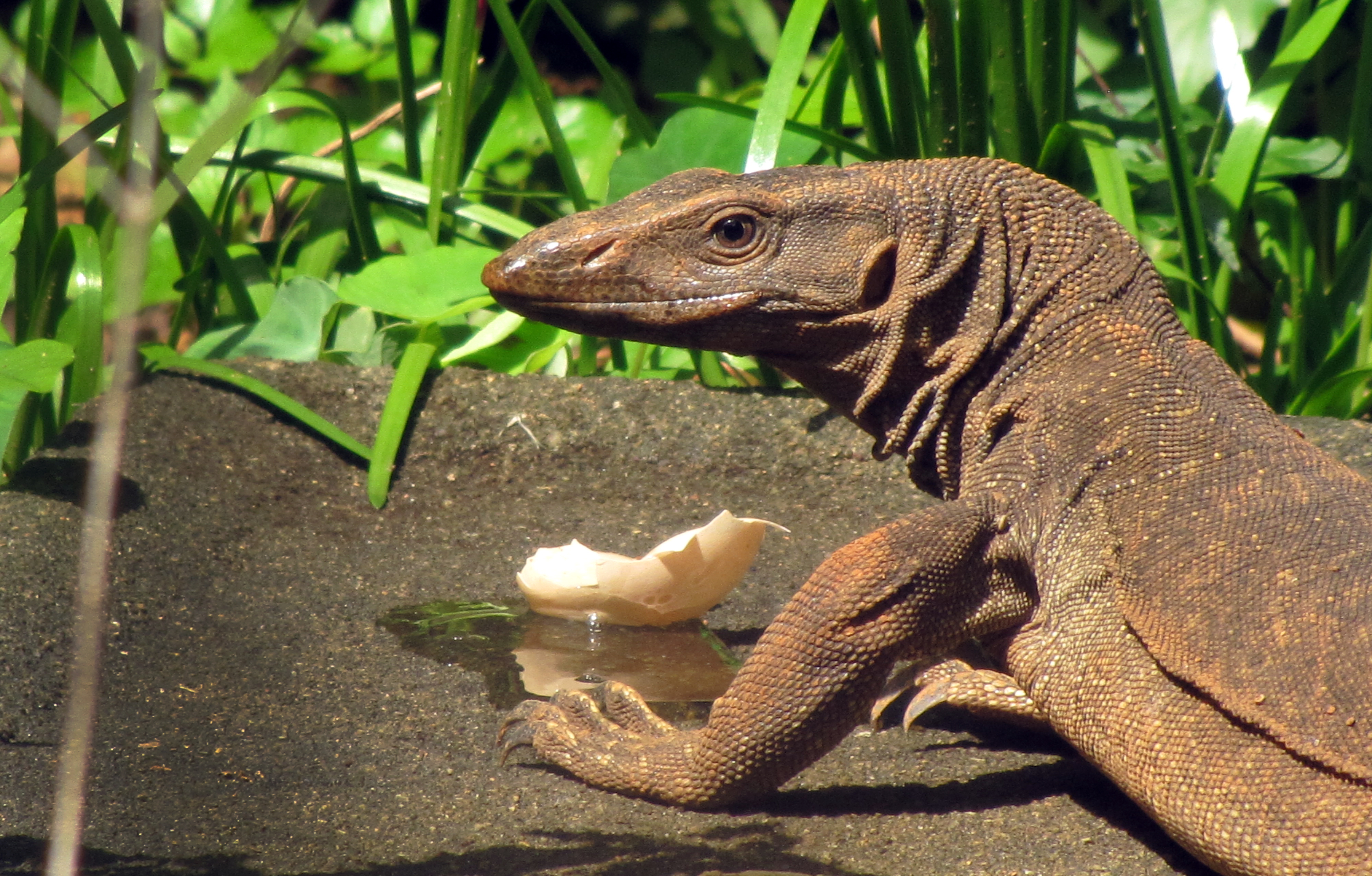 cunning egg eater